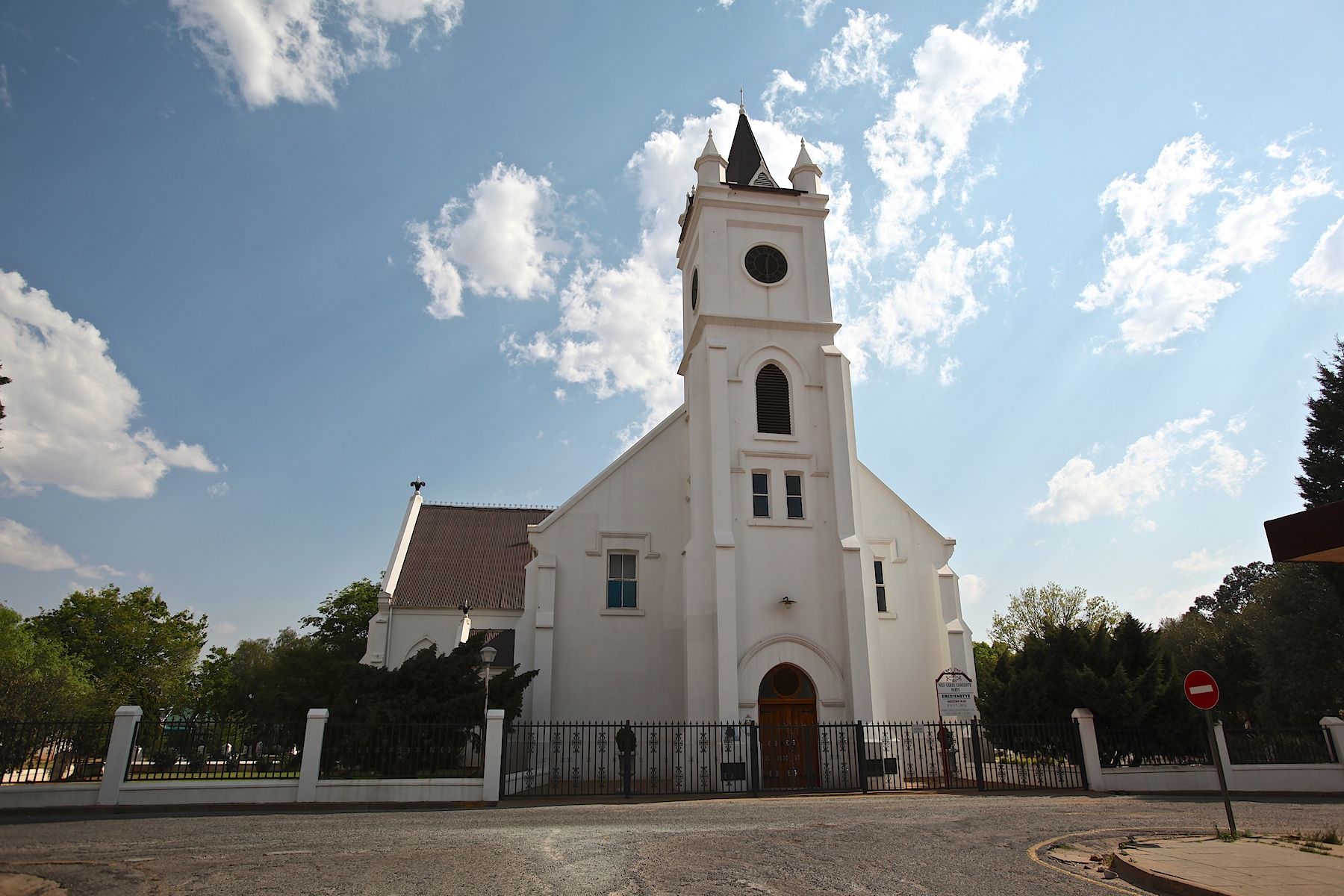 Nederduitse Gereformeerde Mother Church, Hefer Street, Parys This media shows a South African Protected Site with SAHRA file reference 9/2/329/0007.